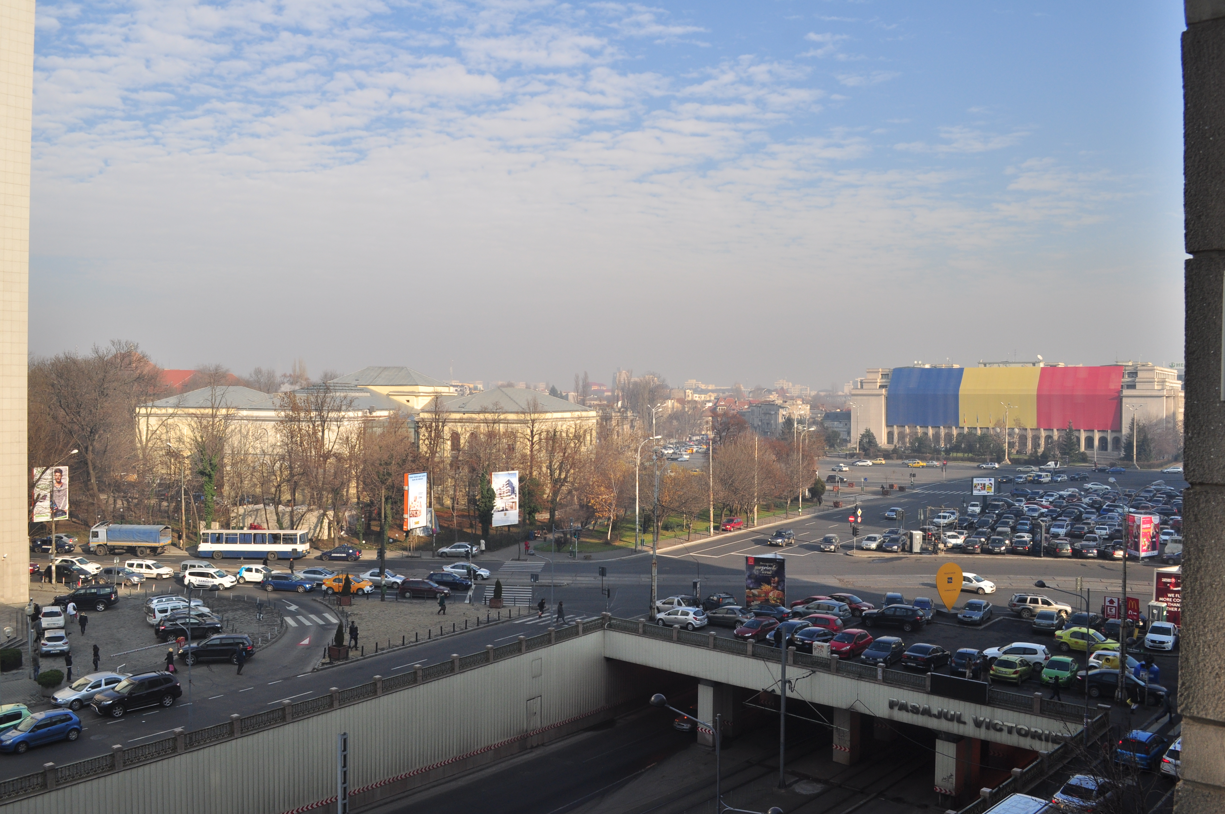 Piaţa Victoriei, Bucharest, Romania, including National Geology Museum at left Victoria Palace at right with giant Romanian flag. Both buildings have Monument istoric status.